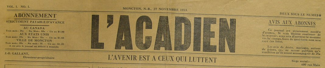 The first number of L'Acadien newspaper.